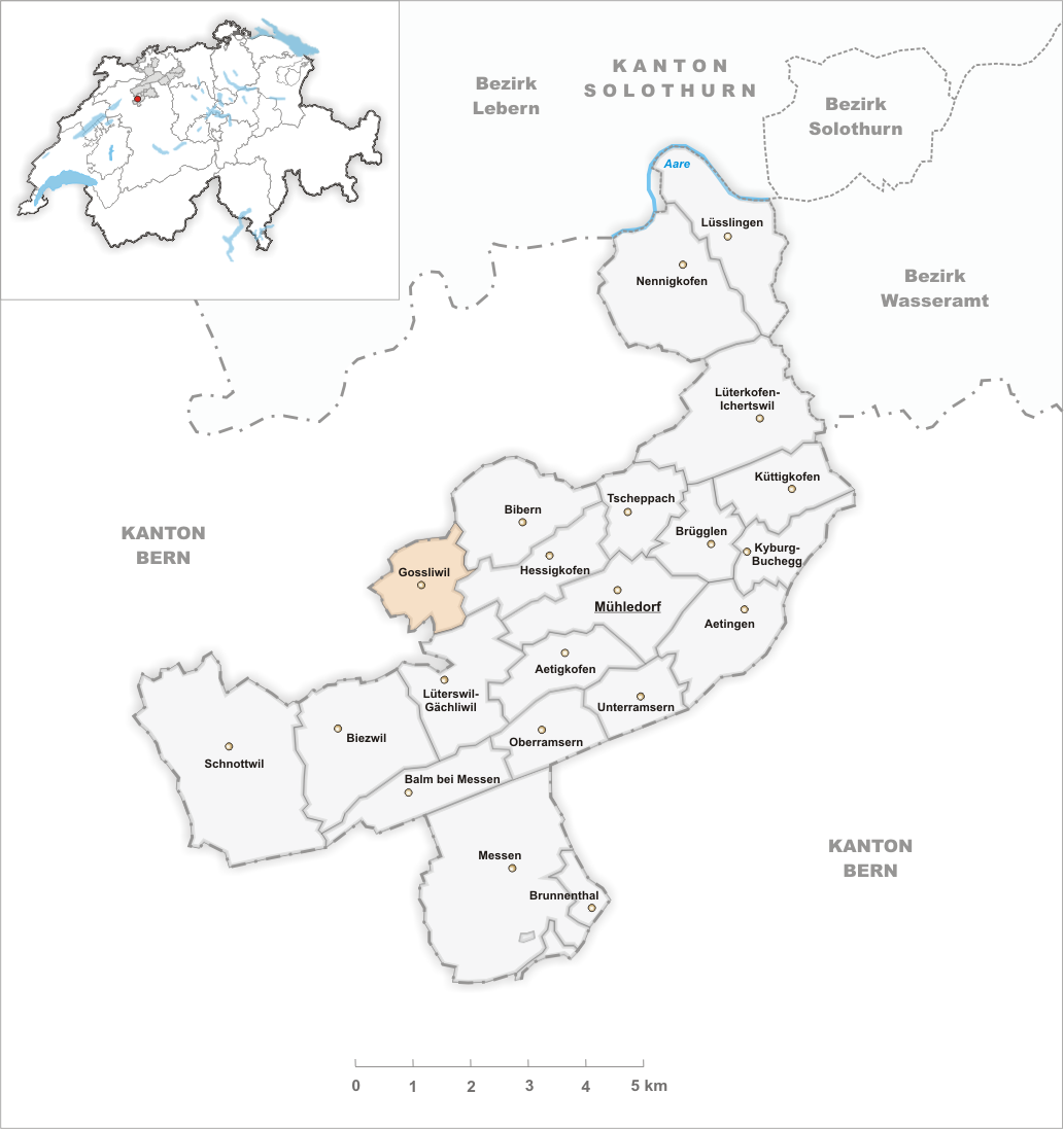 Municipality Gossliwil